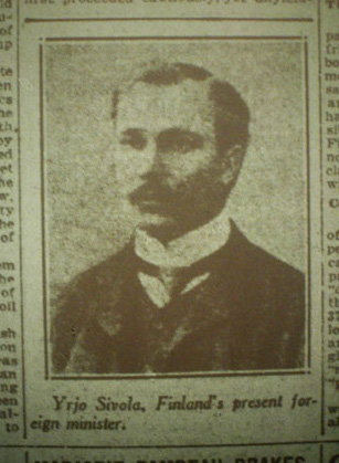 Yrjö Sirola, Finnish Foreign Minister, 1918 Public domain, published in USA prior to 1923. Photo from hardcopy by Tim Davenport, no copyright claimed.